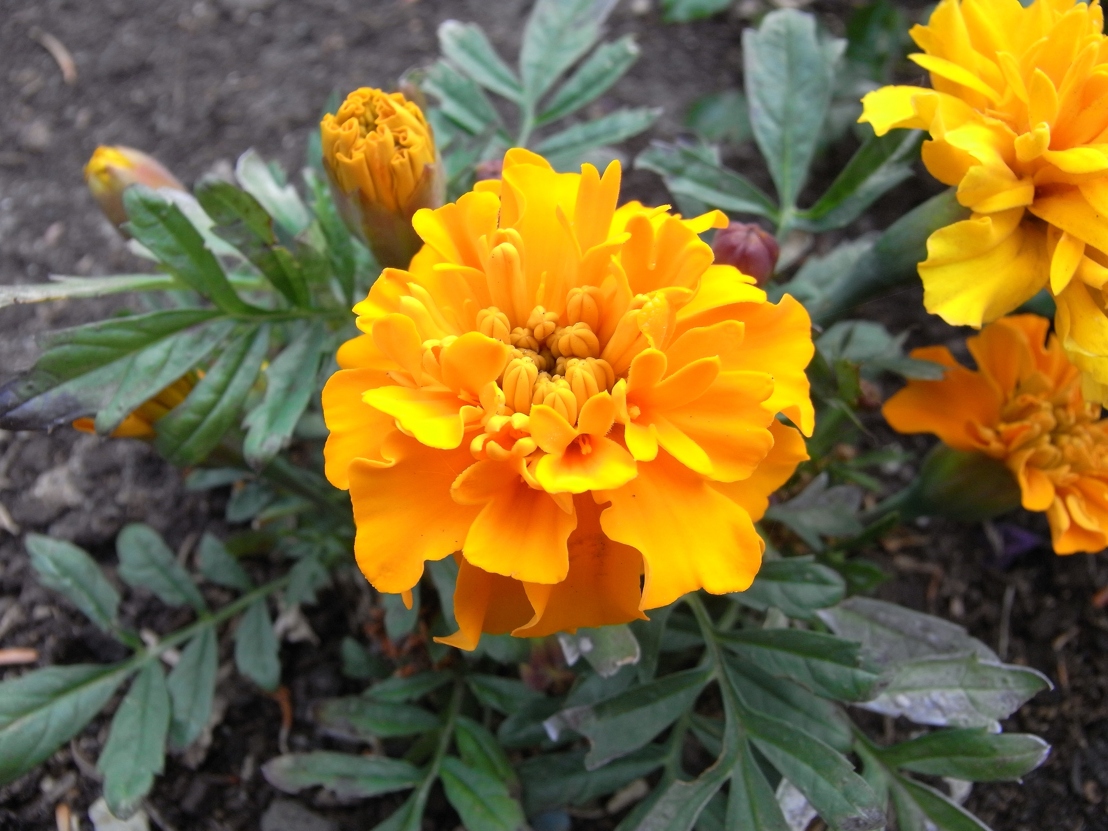 Tagetes